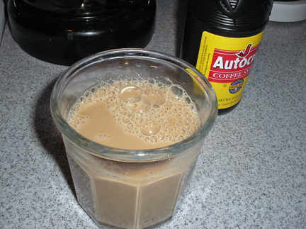 Uncle Matty's Coffee milk